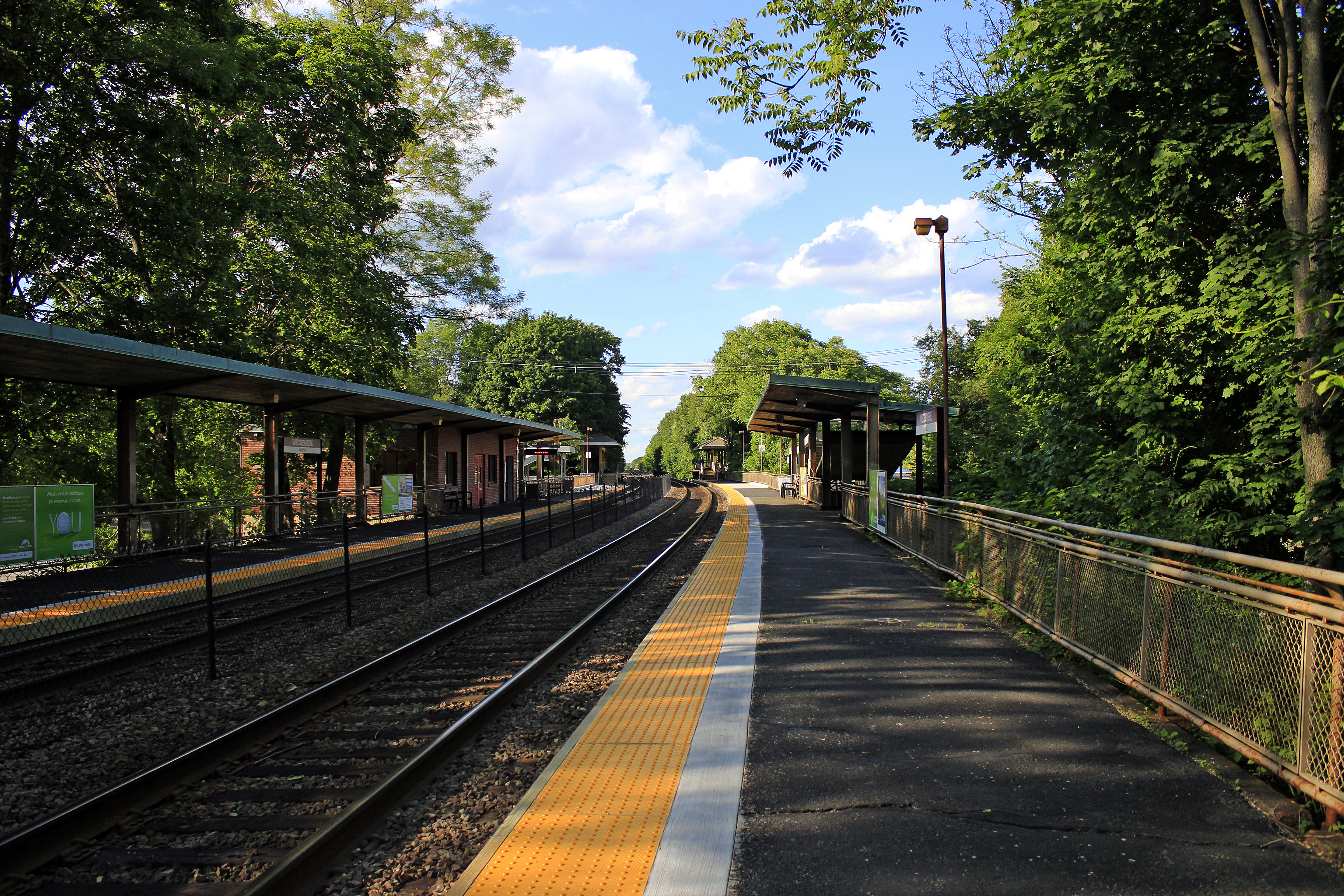 Wedgemere shortly after the re-opening. The High-Level Platforms and ramps are fully opened.